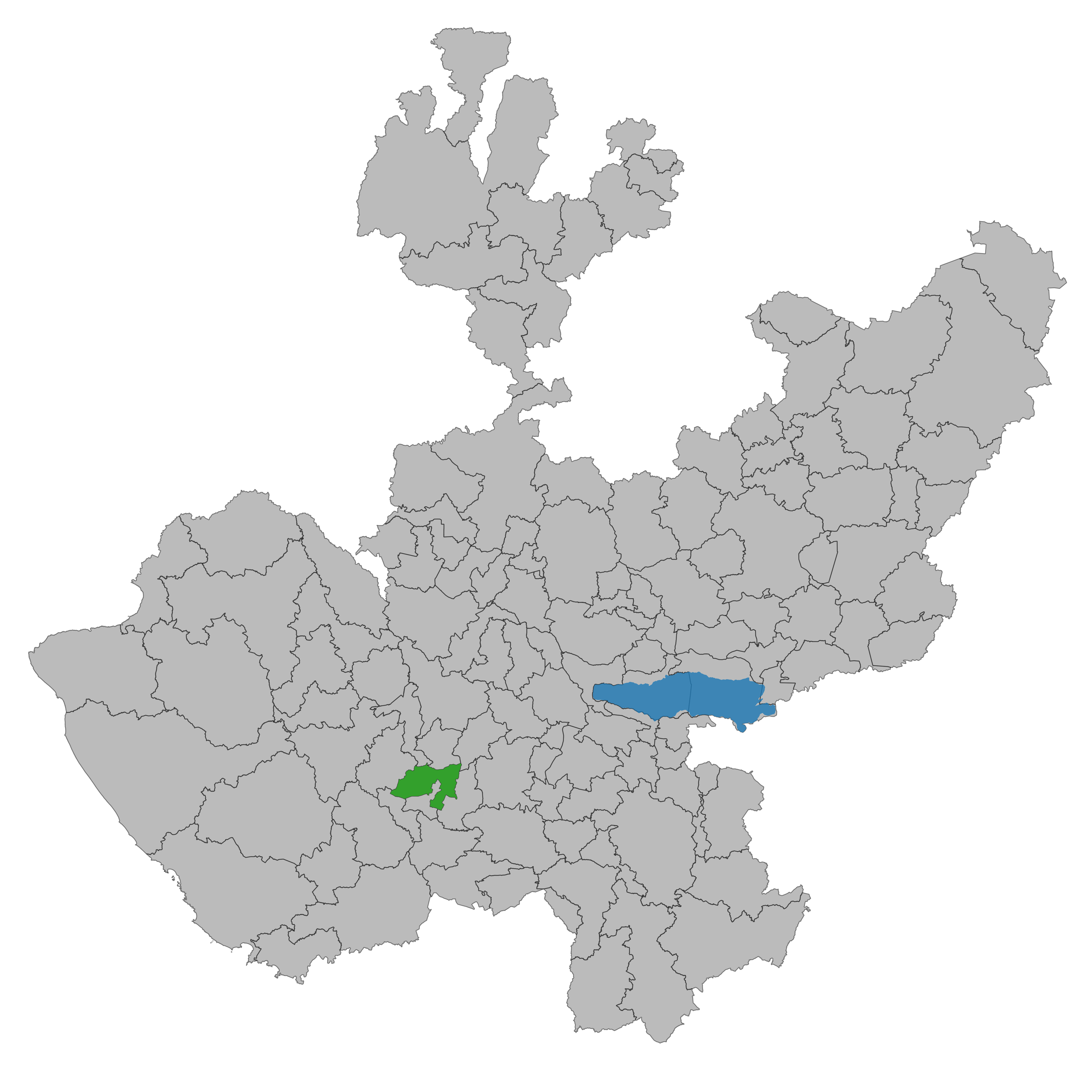 Municipality of Jalisco. Prepared with the software QGIS version 2.8.2 Wien & with information of SCINCE 2010 version 05/2013